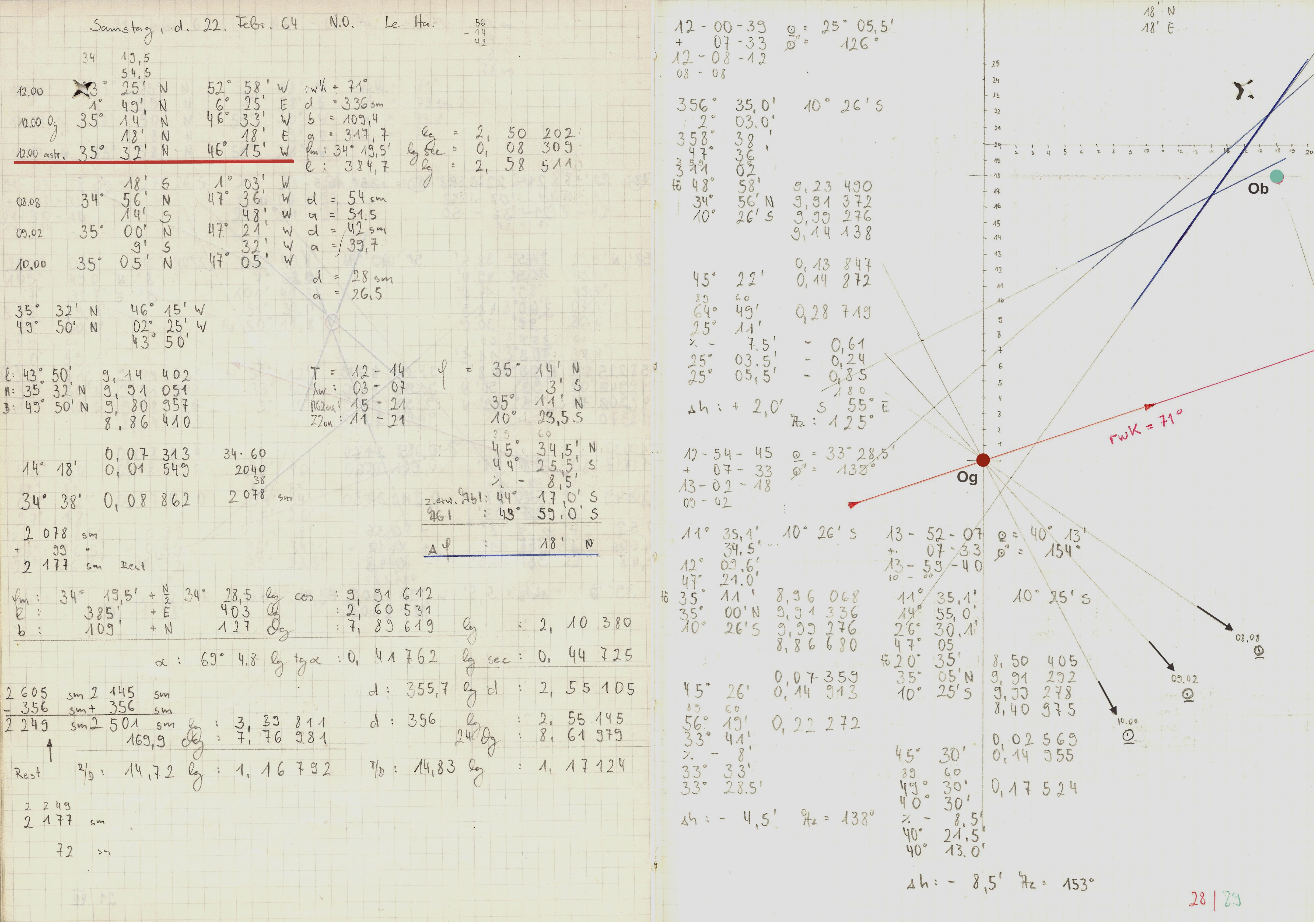 Calculation of the ship's location at 12.00 clock. - Observation of the sun 3 times and accumulation. - Ship with a strong drift after bad weather with storms, heavy seas and a closed cloud cover.